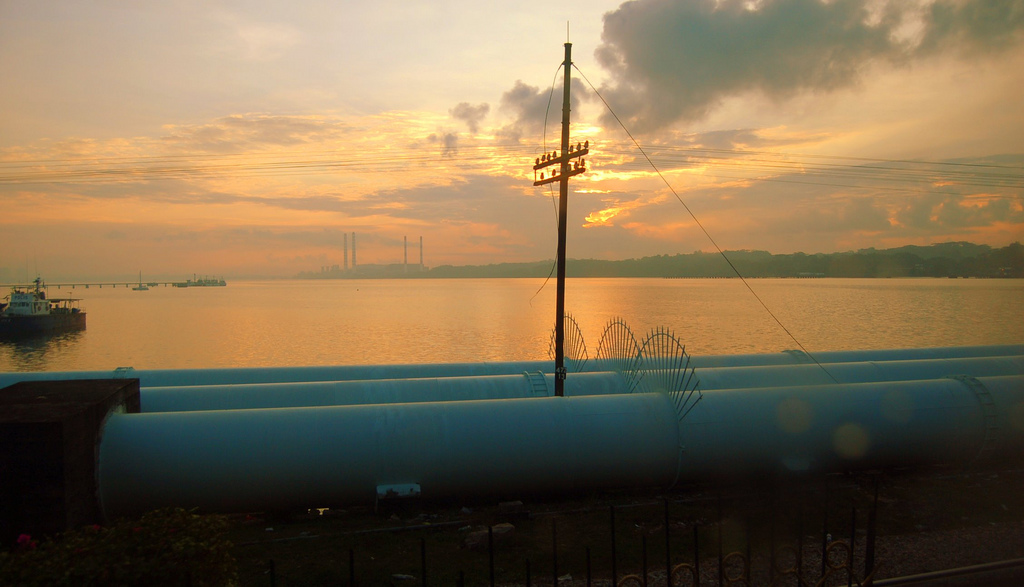 The water pipeline at the Johor-Woodlands causeway which supplies 50% of Singapore's water supply.